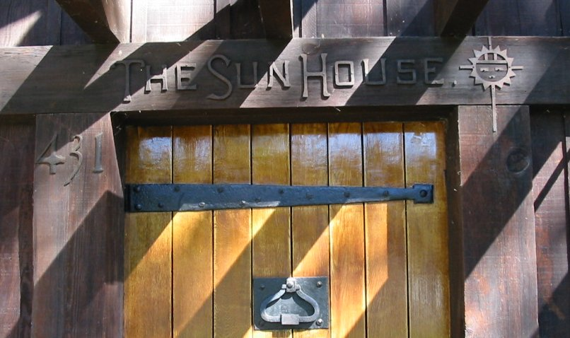 photograph of the door of Grace Hudson's home, The Sun House